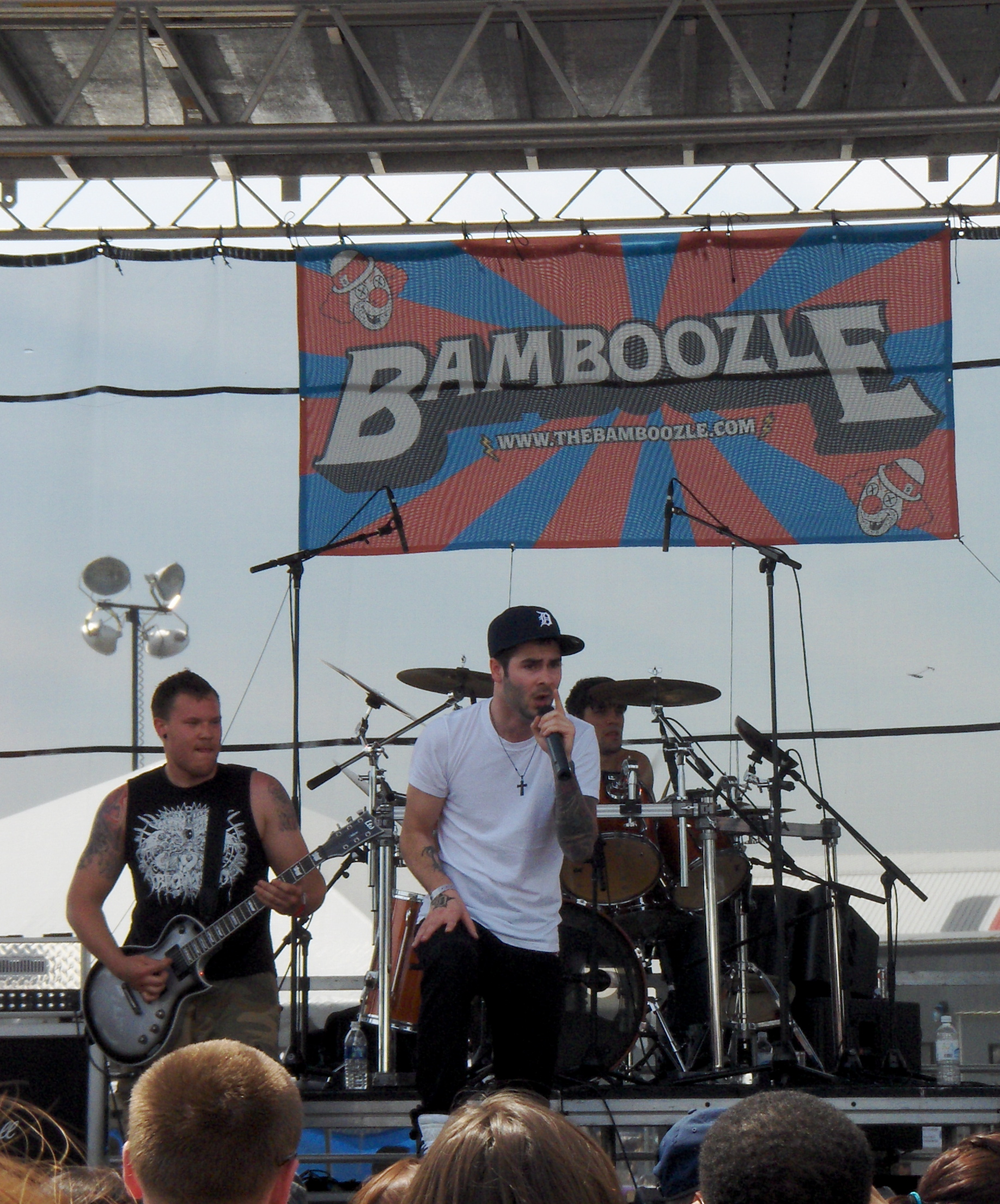 Richy Nix performing at Bamboozle 2010 in New Jersey. I took this photo myself.